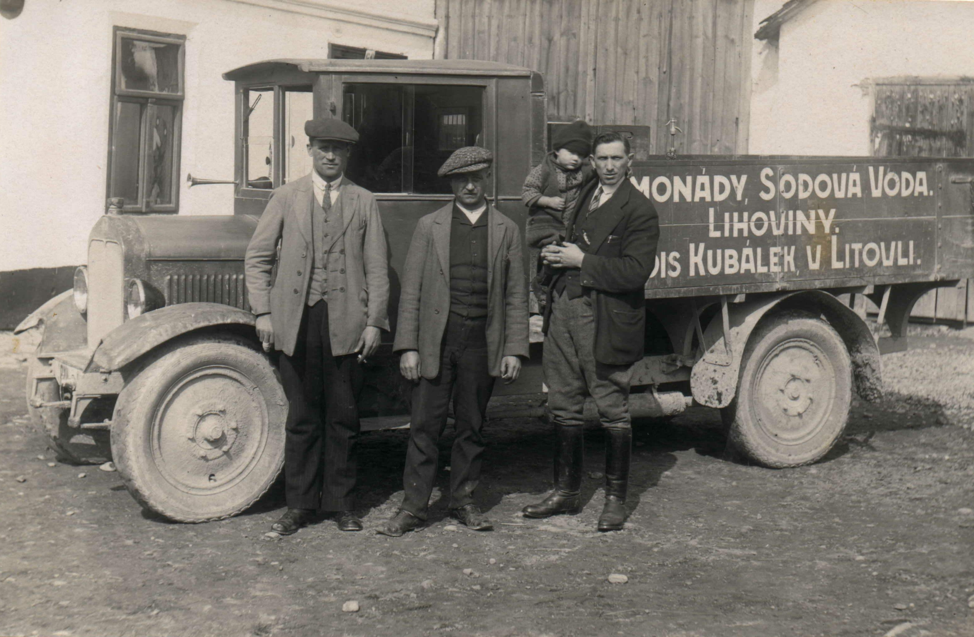 Lorry distributing drinks, belonging to the soft drink company Kubálek.